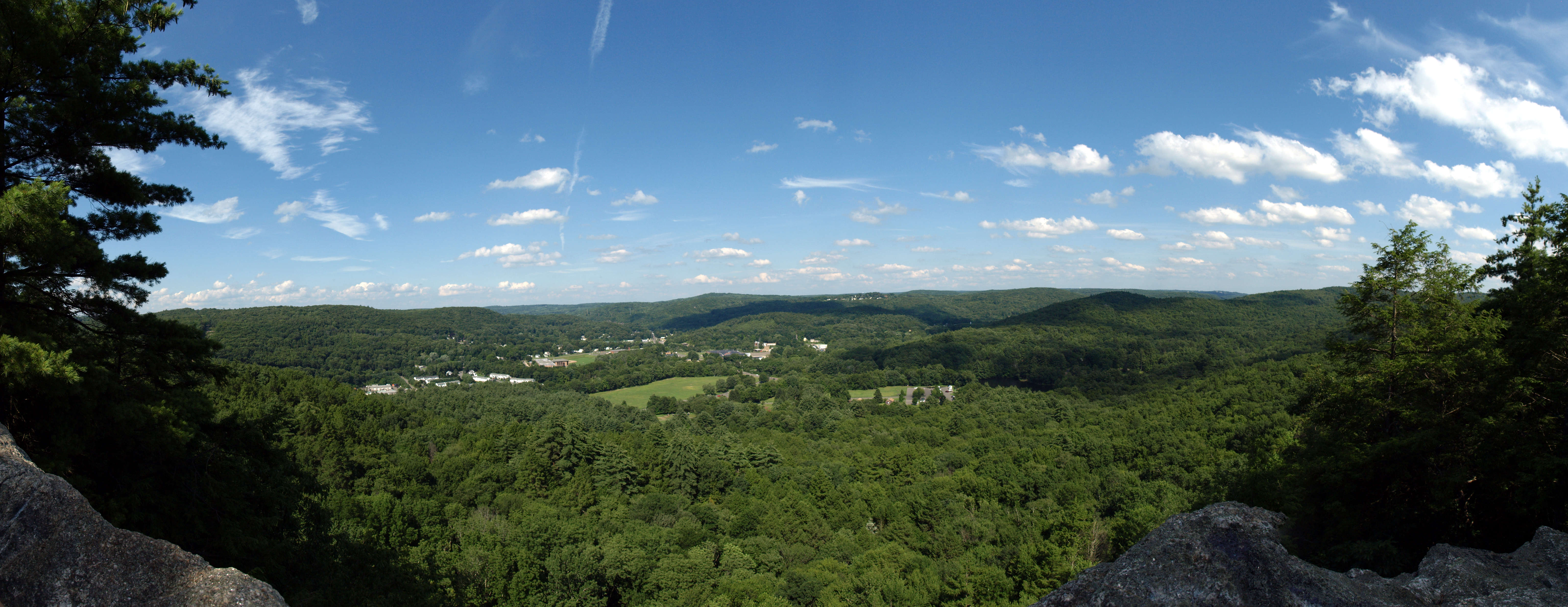 Scenic view from Black Rock at Black Rock State Park, Watertown, CT. View is reachable via the Mattatuck (Blue) Trail.